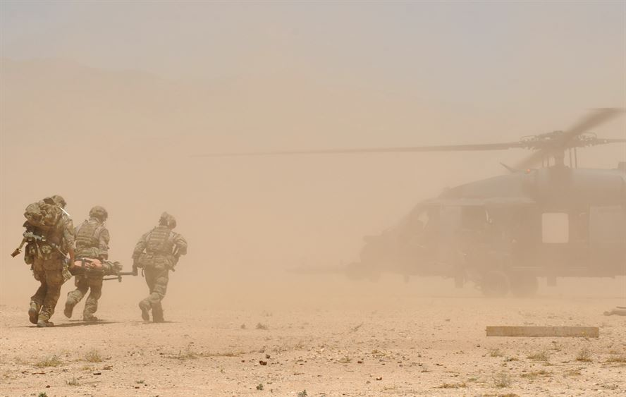 Pararescuemen assigned to the 306th Rescue Squadron evacuate a simulated casualty to an HH-60 of the 305th Rescue Squadron during unit training in May 2014